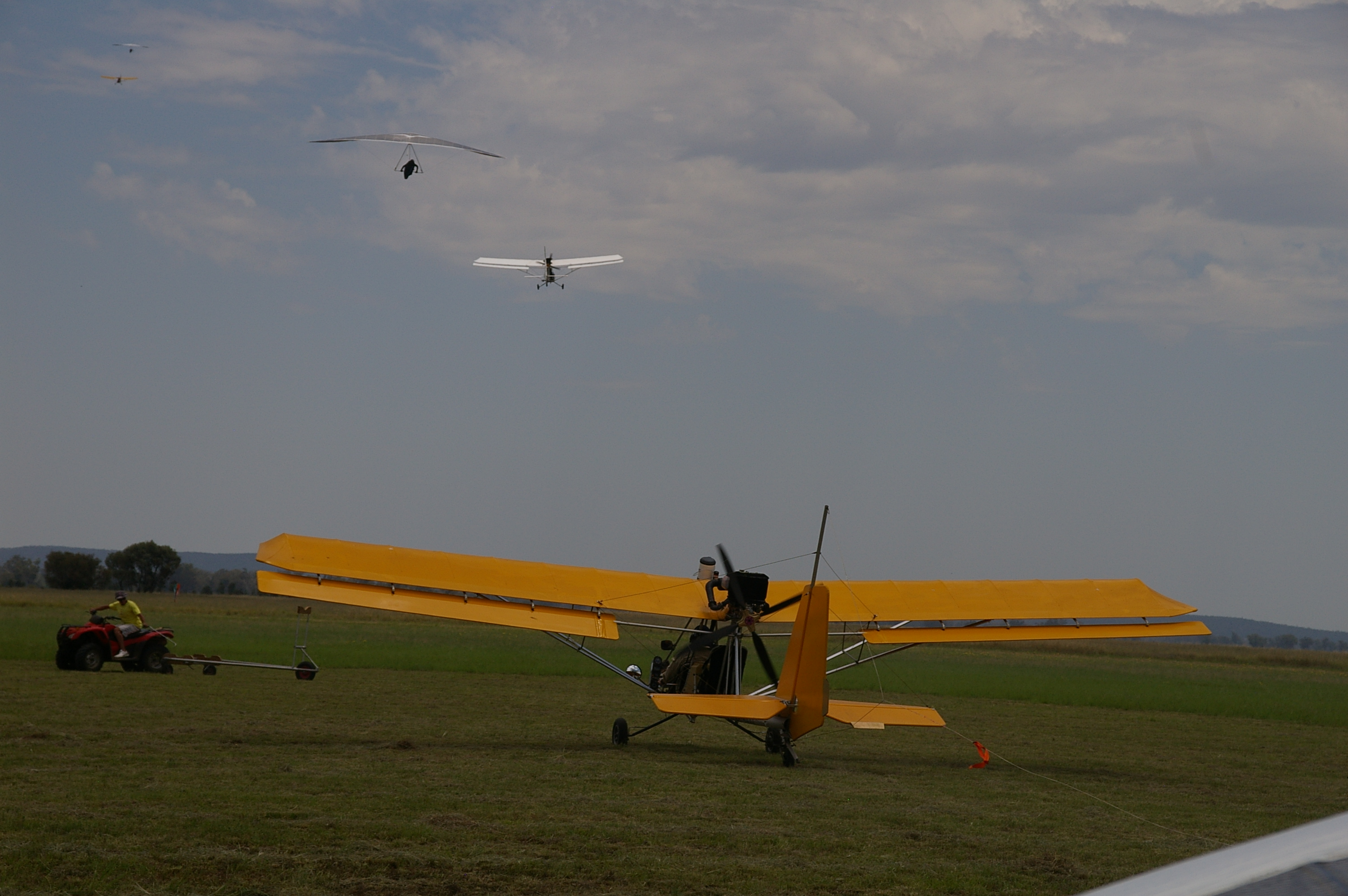 Dragonflies tow hang gliders up to catch up a thermal. Like clockwork, one after the other, barely a minute apart.